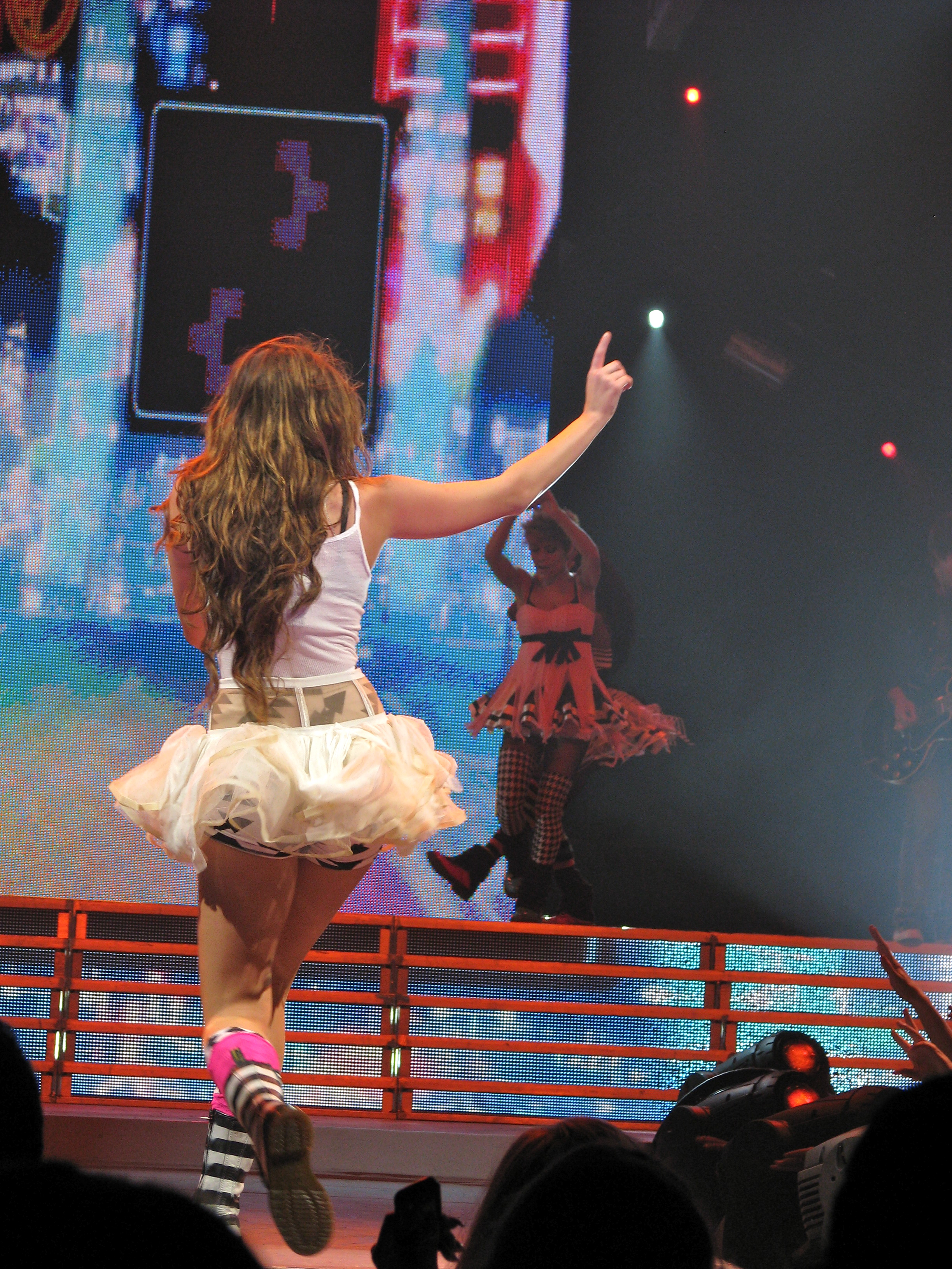 A teen singing.